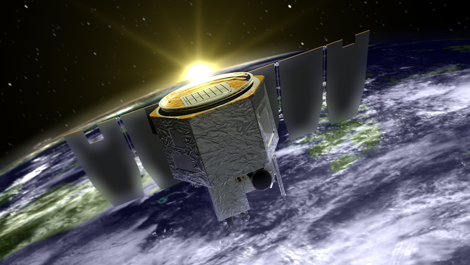 Aeronomy of Ice in the Mesosphere (AIM) artist's concept